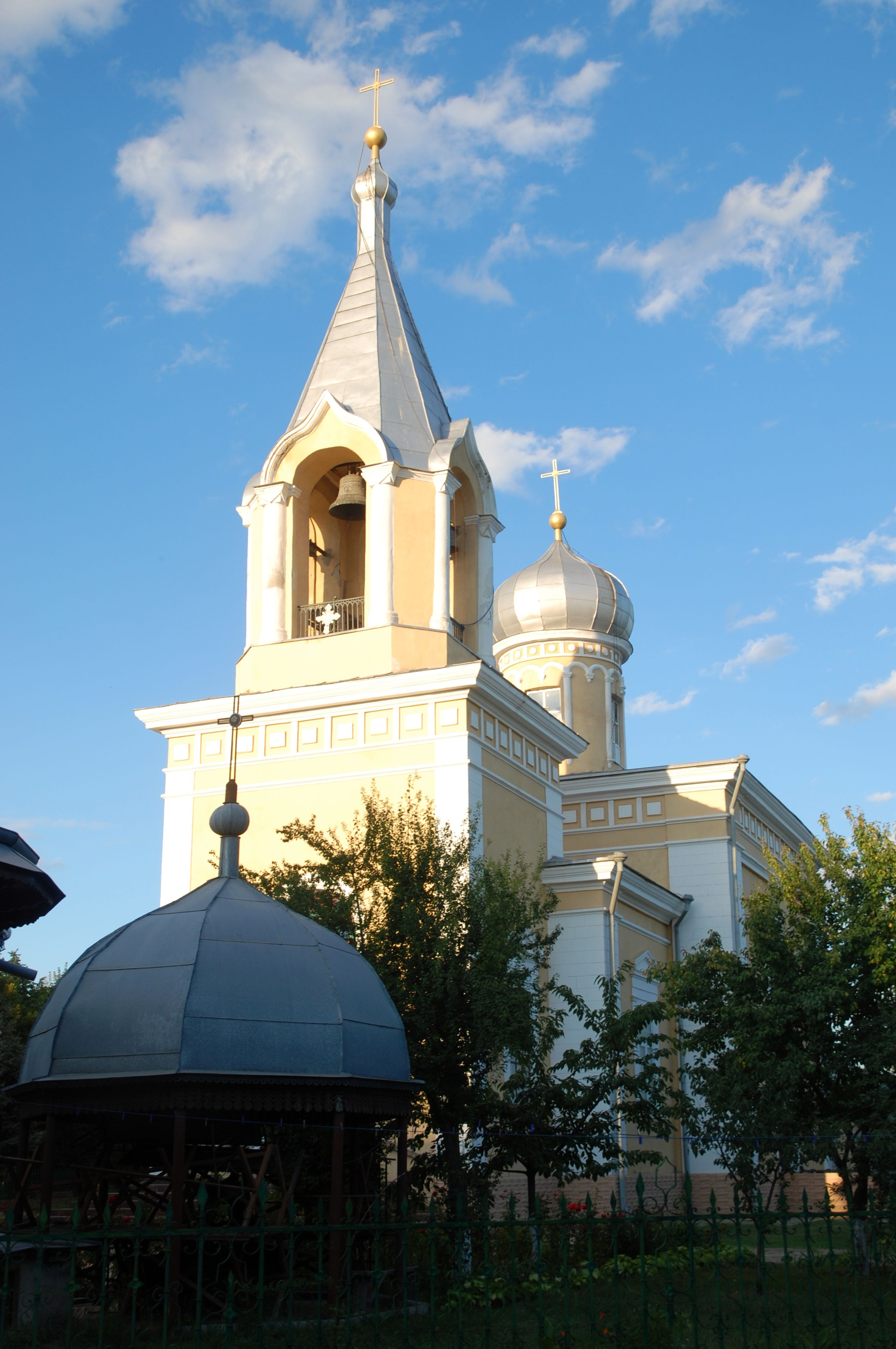 Cahul, St Michael's Cathedral